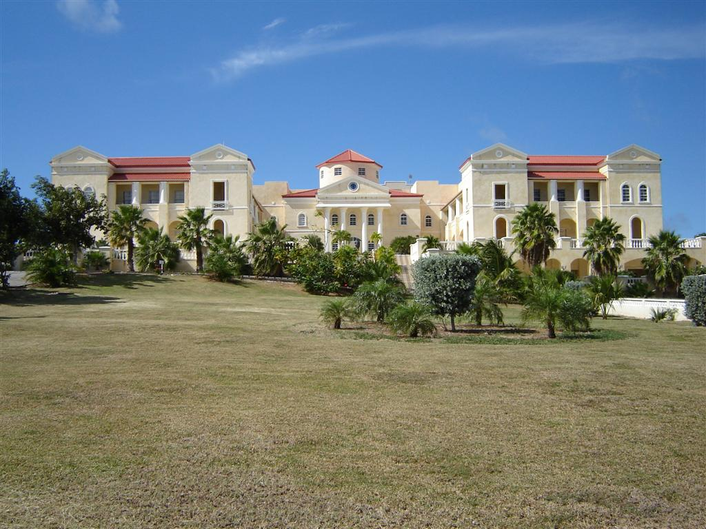 The American university of the Caribbean, in Saint Martin (Netherlands).